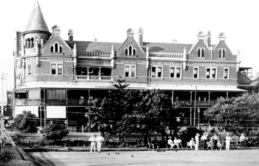 Cropped and retouched version of Image:Hotel Esplanade, Perth 3.jpg, which has the following description: Summary Description